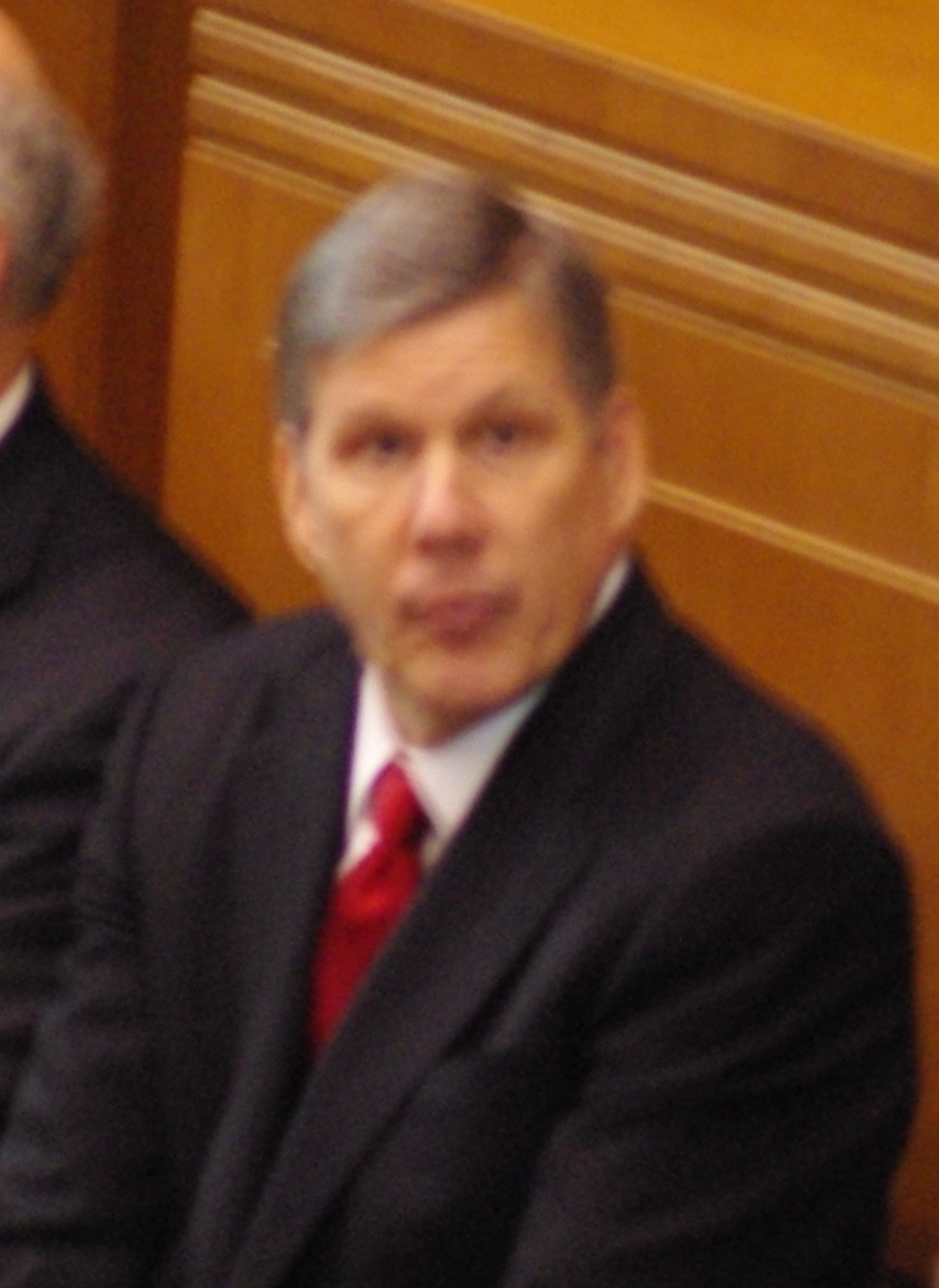 Oregon state treasurer Ben Westlund at opening of 2009 Oregon leg.